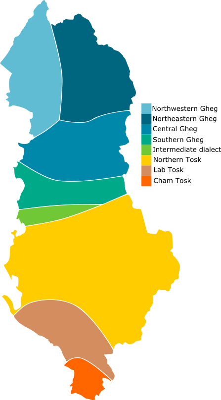 Albanian dialects and subdialects